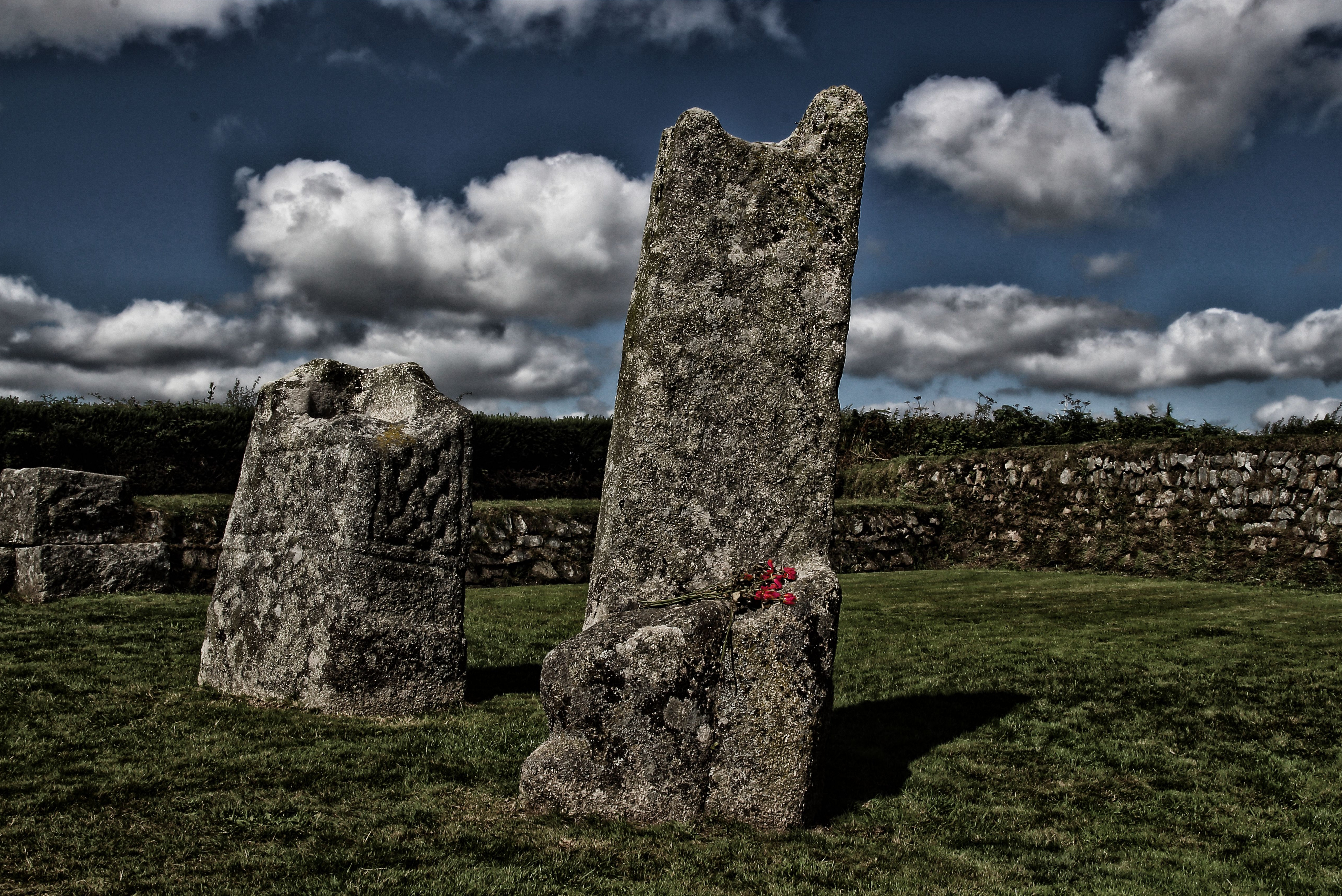 Memorial stone for the last Cornish king Doniert (Dumgarth), who drowned in 876 AD